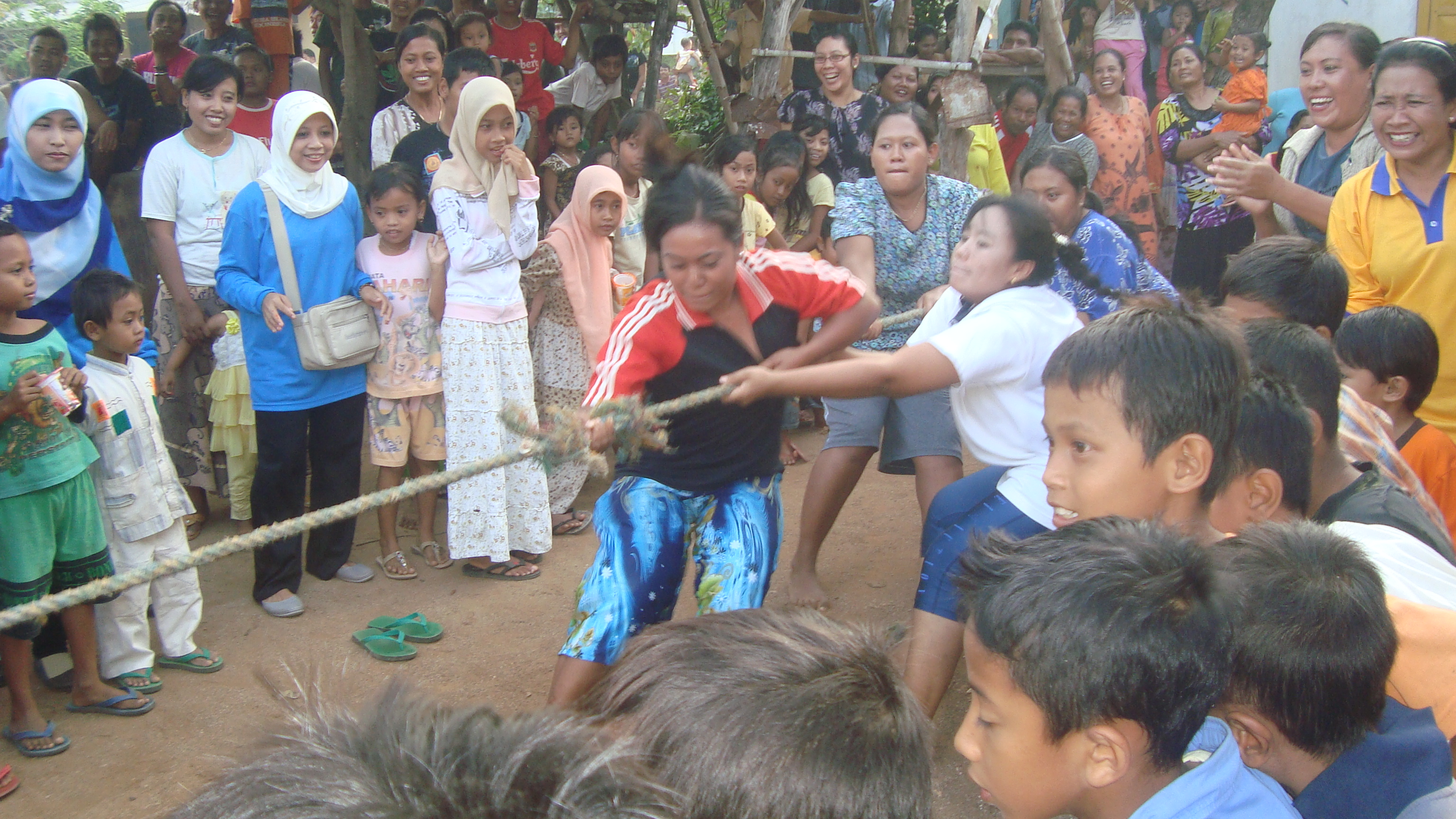 Kegiatan 17 Agustusan - Tarik Tambang